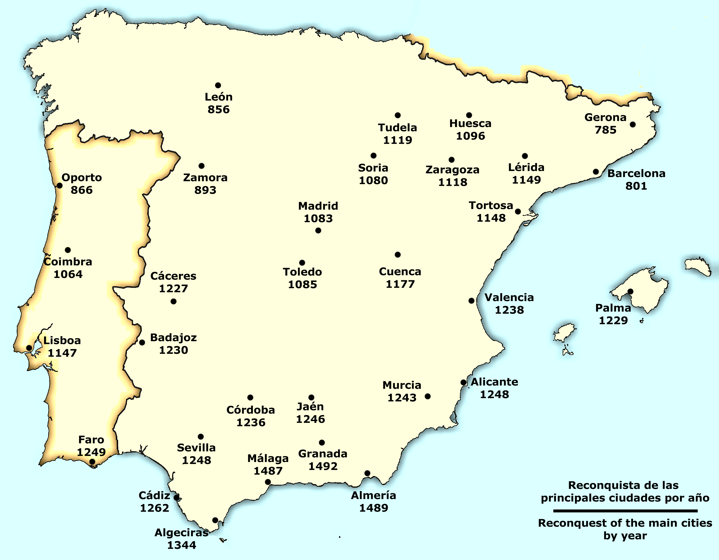 Reconquest of the main cities in The Reconquista